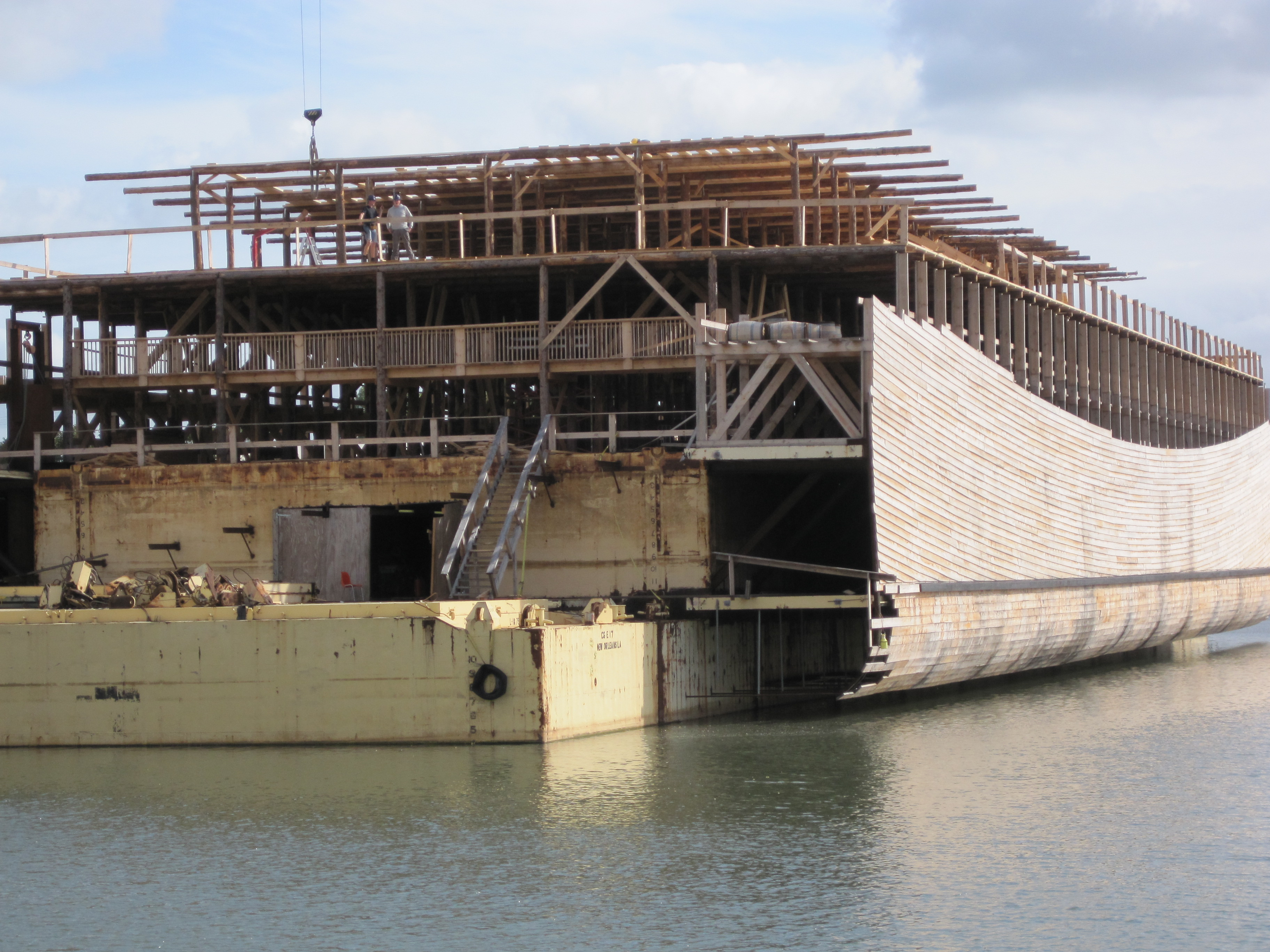 Johan's Ark in construction. LASH barges clearly visible